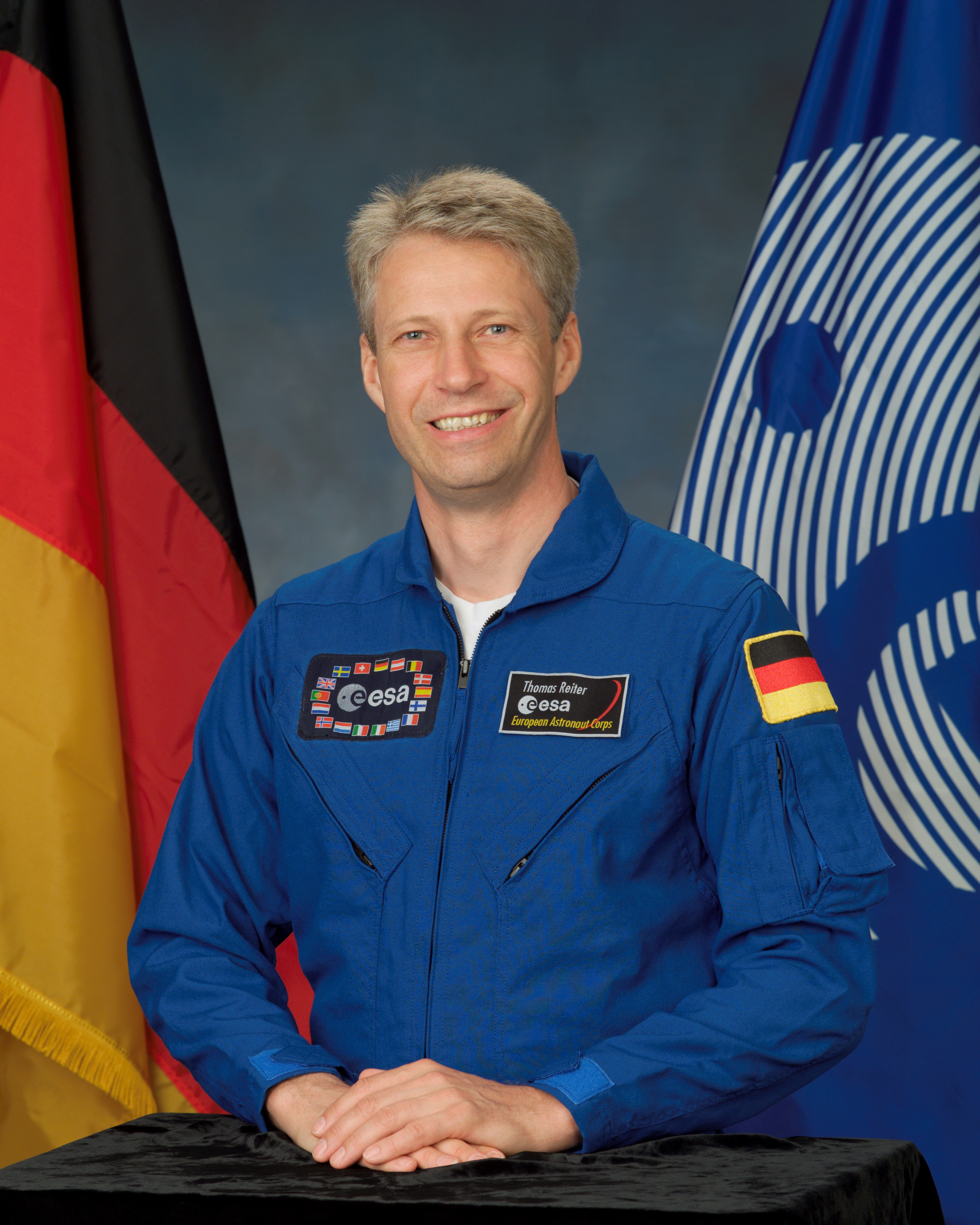 European Space Agency astronaut Thomas Reiter